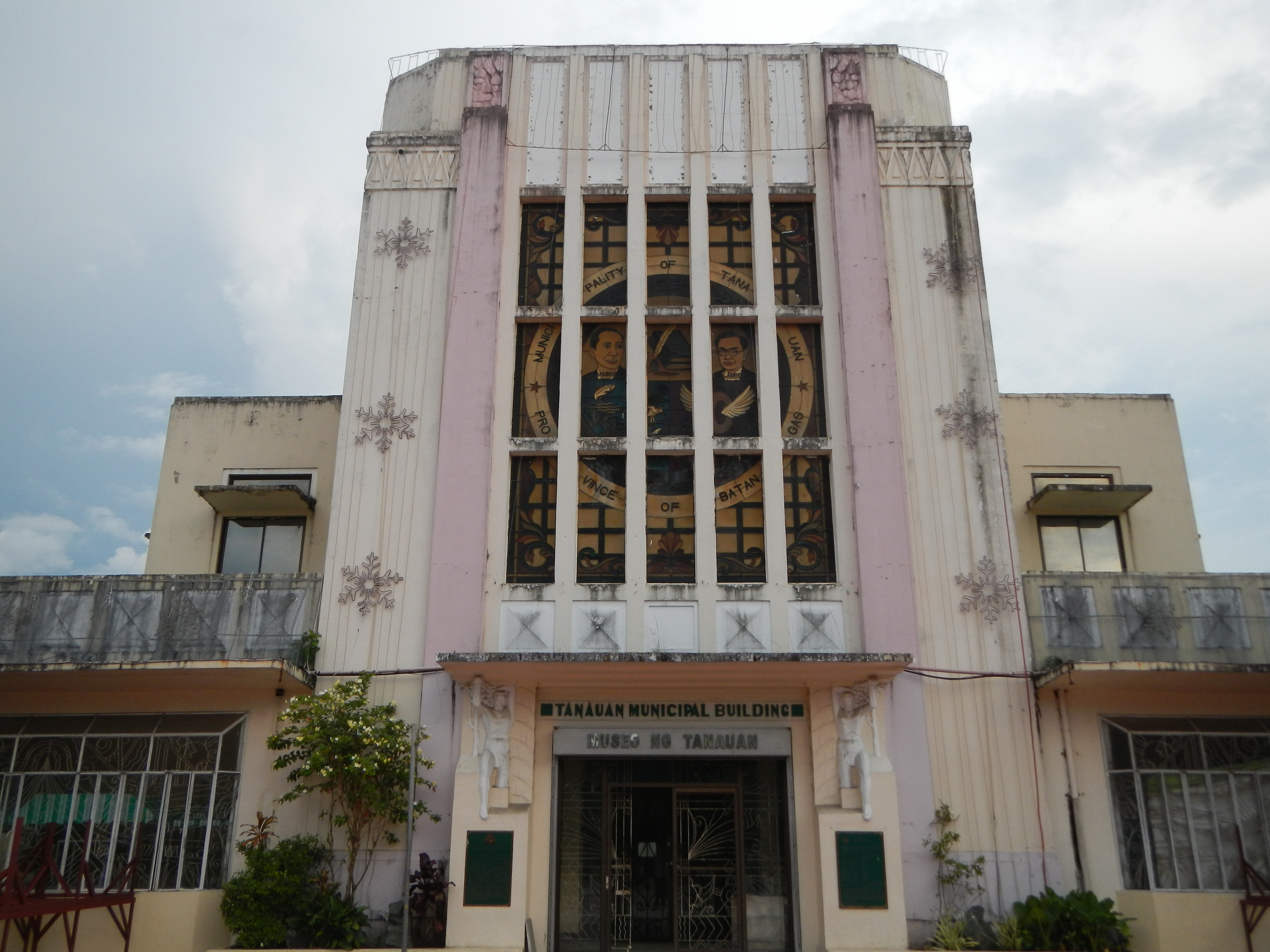 Old Municipal Building - now Museo ng Tanauan - at - the Apolinario Mabini [1] Monument, Plaza, in - Tanauan, Batangas [2] - The City of Tanauan is a first class city in the province of Batangas, Philippines. According to the latest census, it has a population of 152,393 inhabitants in 30, 354 households; incorporated as a city under Republic Act No. 9005, signed on February 2, 2001, and ratified on March 10, 2001. [3] Coordinates: 14°5'28"N 121°5'51"E [4] Geographical location: Batangas, Region 4, Philippines, Asia Geographical coordinates: 14° 4' 58" North, 121° 9' 2" East This place is situated in Batangas, Region 4, Philippines, its geographical coordinates are 14° 4' 58" North, 121° 9' 2" East and its original name (with diacritics) is Tanauan. Website